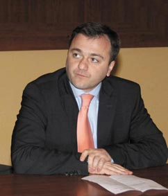 Georgia Today interviewed Aleksi Aleksishvili, the founder of PMCG about the history of the organization and the impact of the panel.